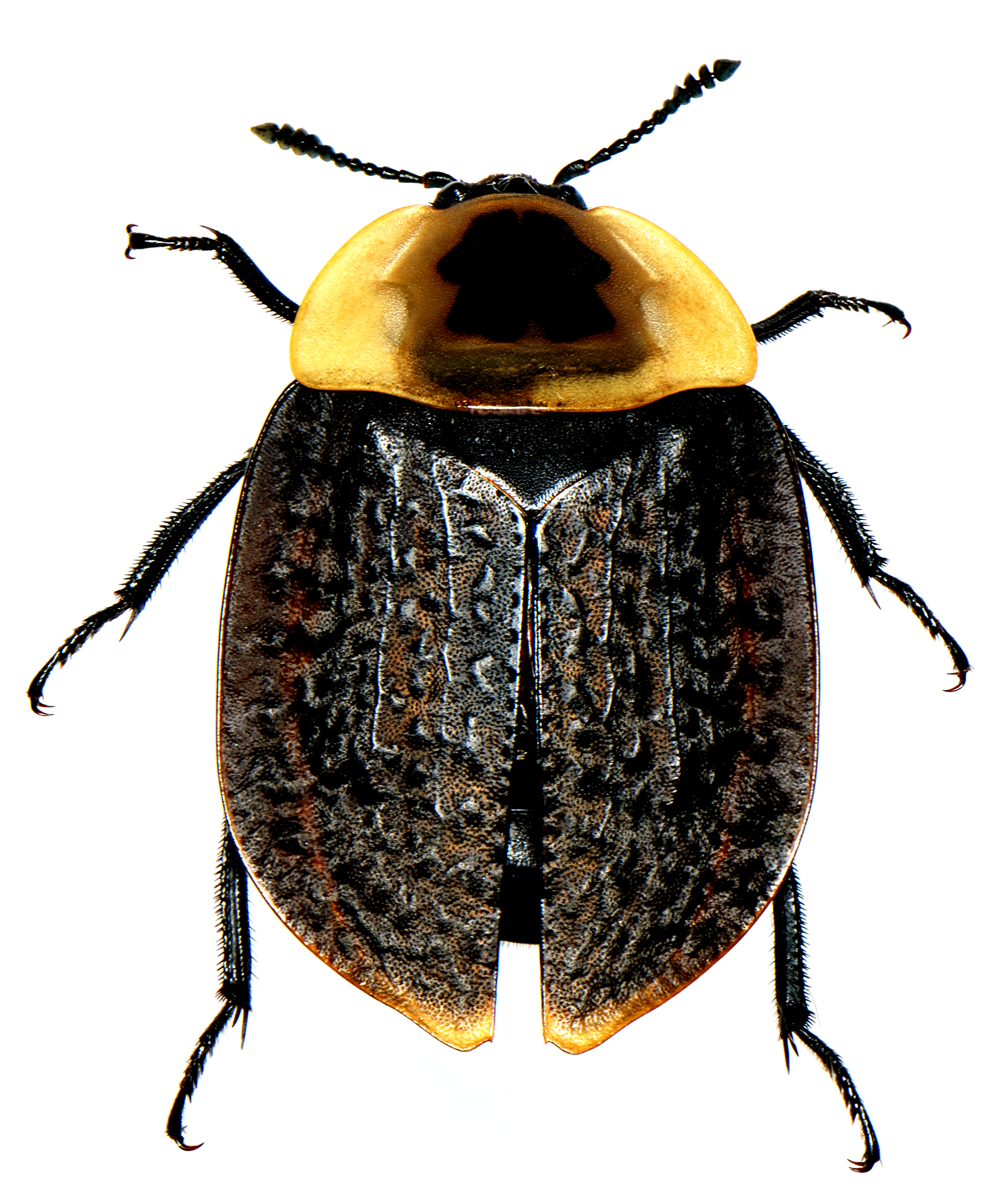 A female individual of Necrophila americana (Linnaeus), the American carrion beetle, which is attracted to dead animal carcasses. This specimen was collected in USA: Connecticut: Middlesex County: Killingworth, in a pitfall trap baited with a dead chipmunk at the interface between a meadow and a forested area with mixed conifers and hardwoods, 28-May to 31-May-2011, collector M.K. Oliver, in collection of same. Length 19.2 mm from front of head to tips of elytra (which are slightly produced in females, as seen here).